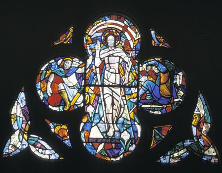 Stained glass window by James Meechan depicting Christ's Resurrection, located in Saint Basil's church, Toronto, Ontario, Canada